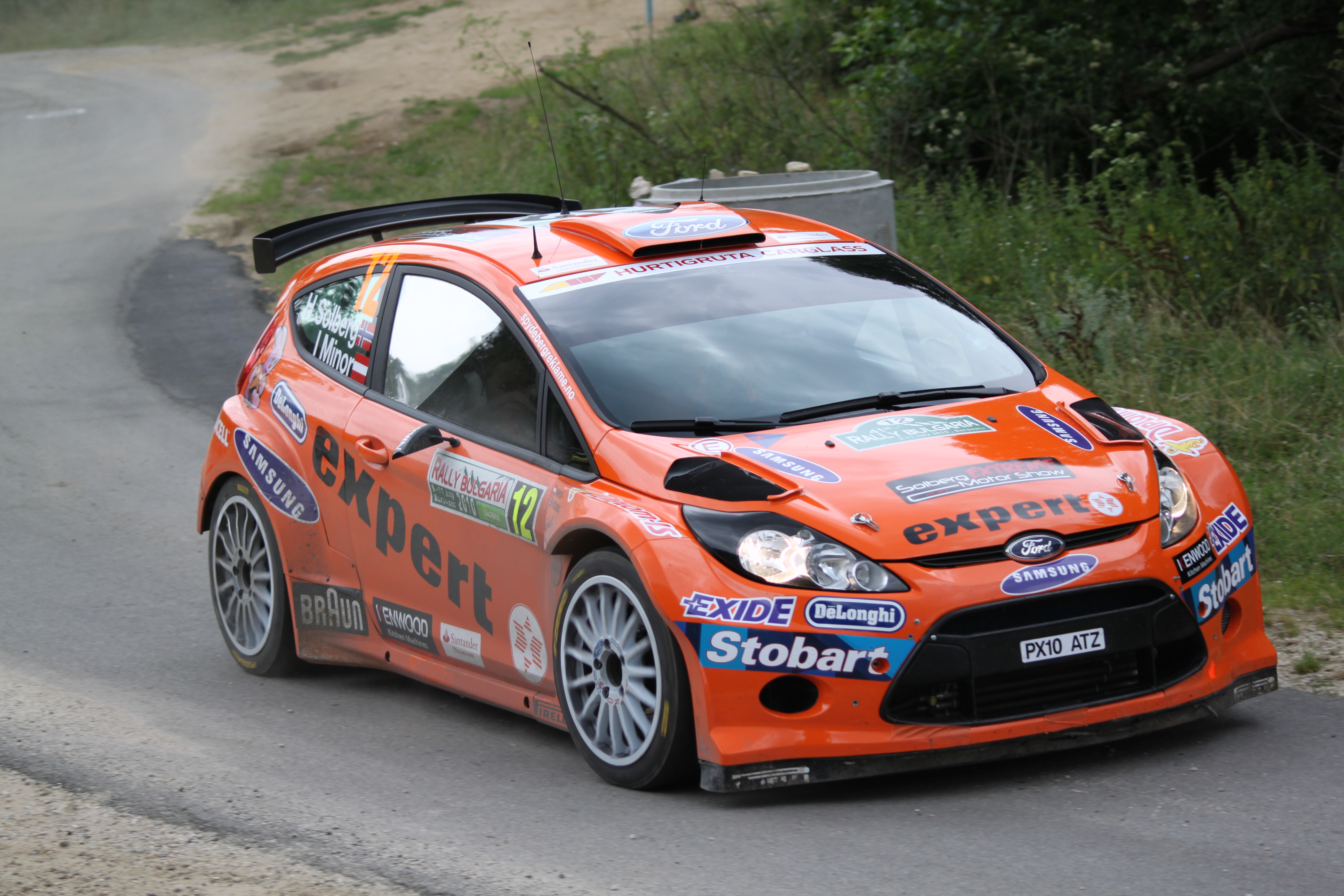 Henning Solberg in SS 3 - Lubnitsa, 41'st WRC Rally Bulgaria 2010